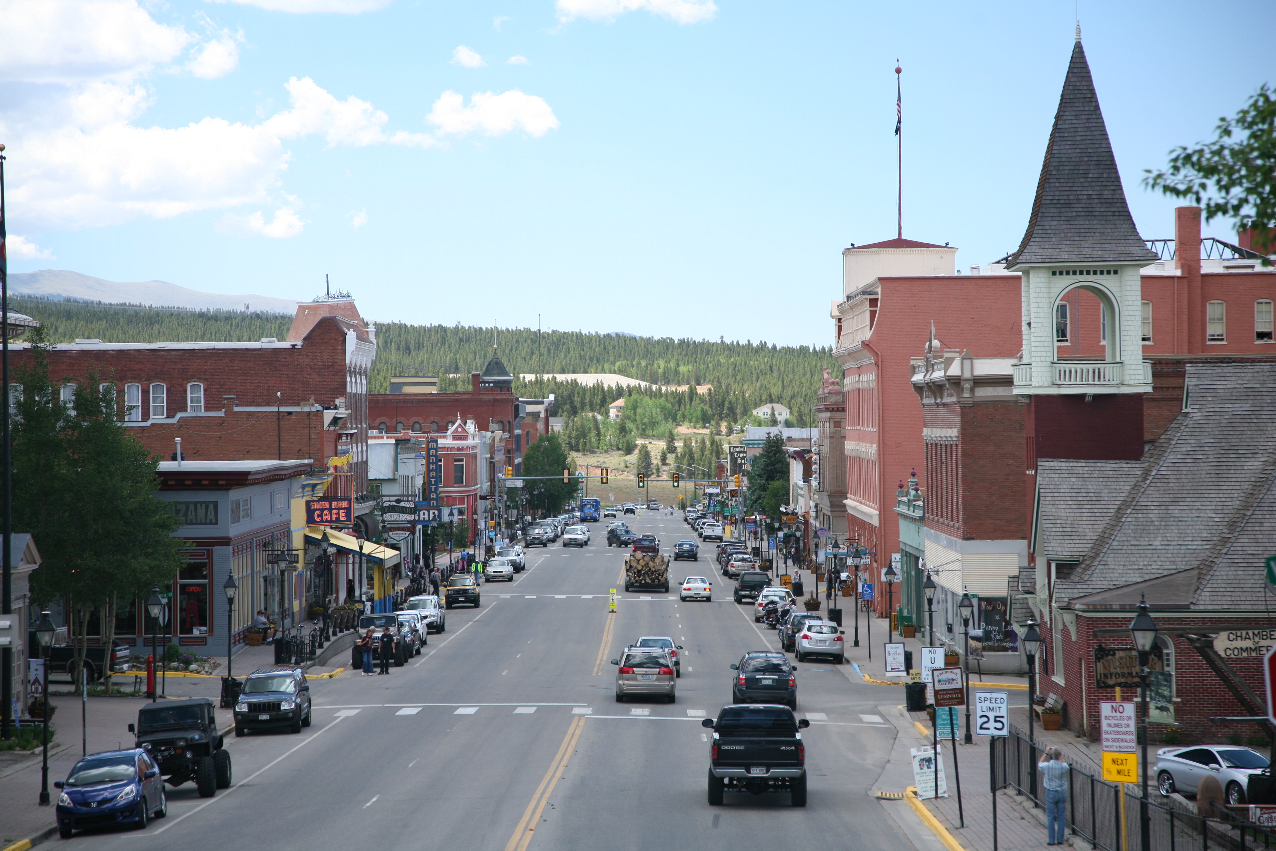 Downtown Leadville, Colorado